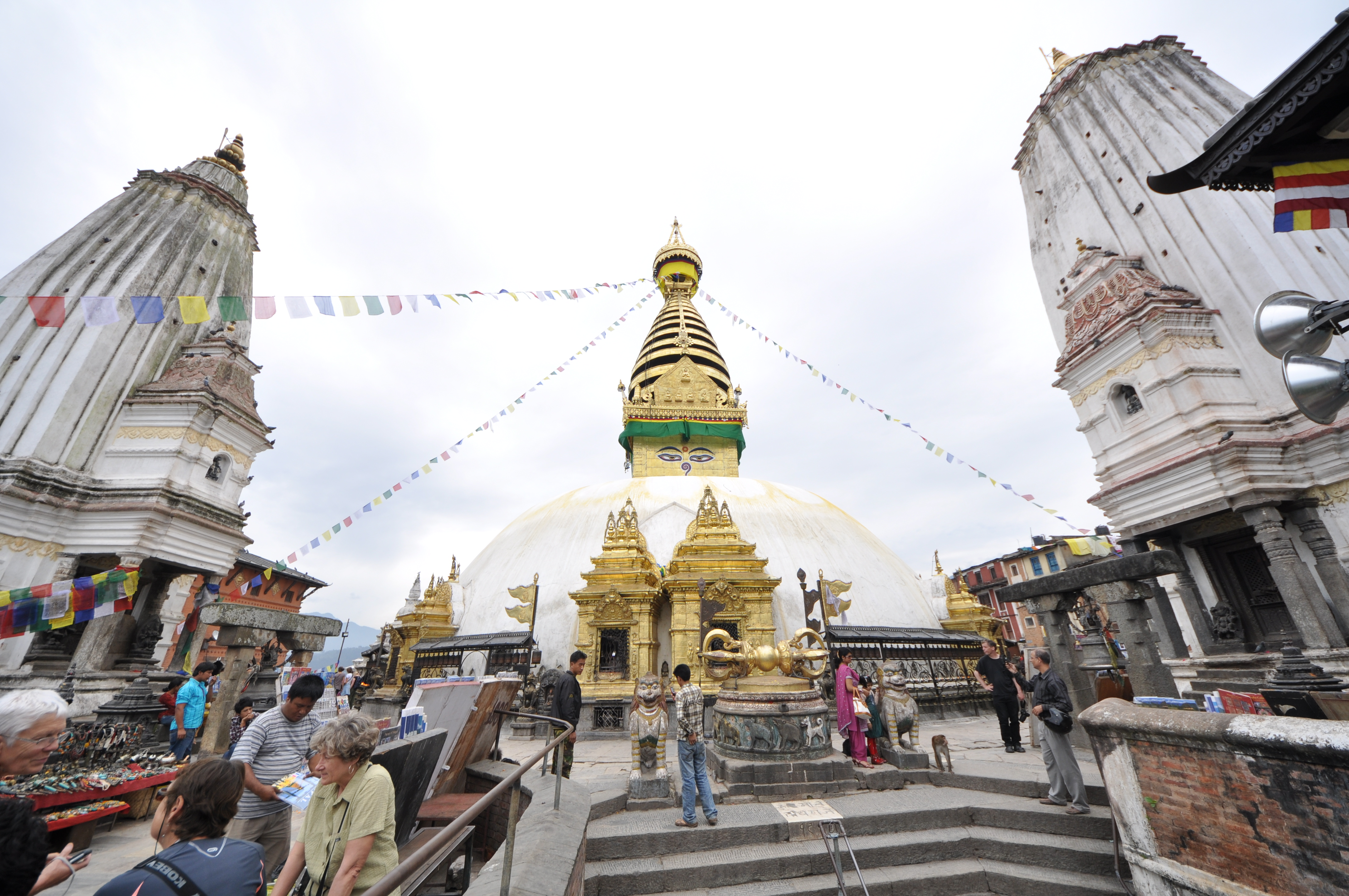 Swayambhunath Stupa in Kathmandu.